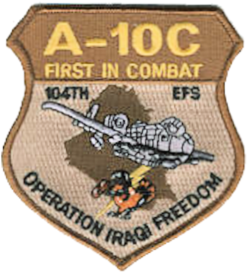 104th Expeditionary Fighter Squadron - OIF patch